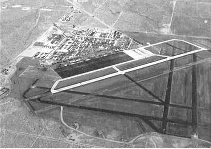 Aerial photograph of Victorville Army Air Field.